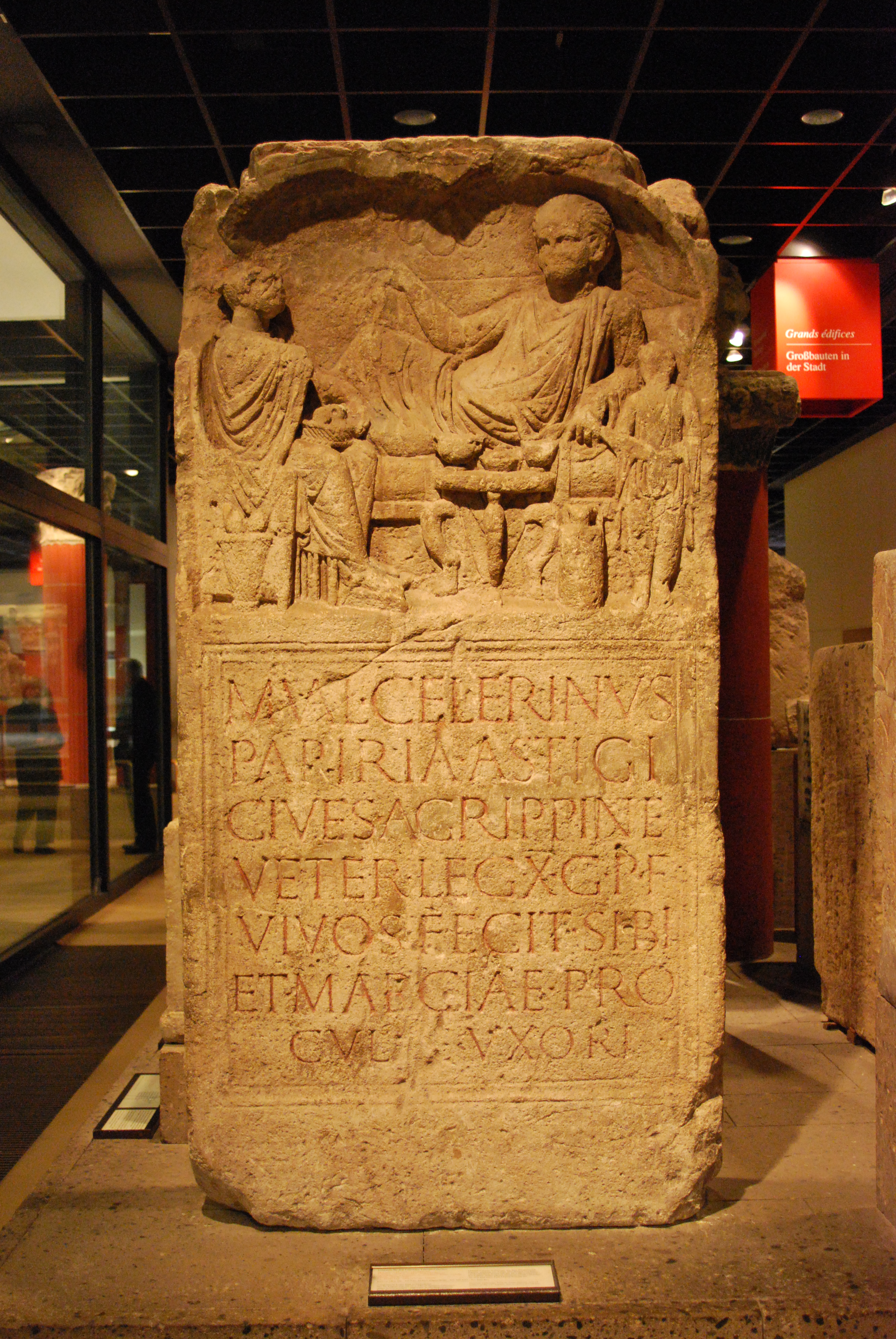 Gravestone of the roman veteran Valerius Celerinus; LEG X Geminia.